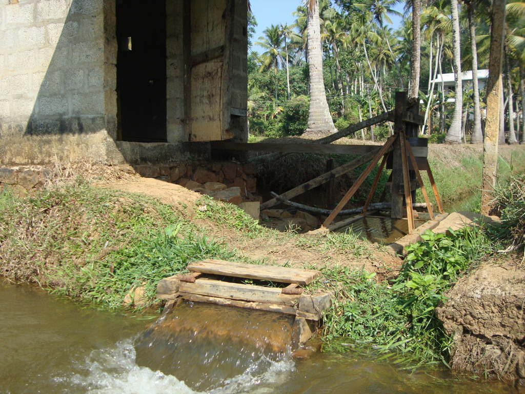 The 'Petti Para' system used for irrigation in paddy fields of kerala Unknown